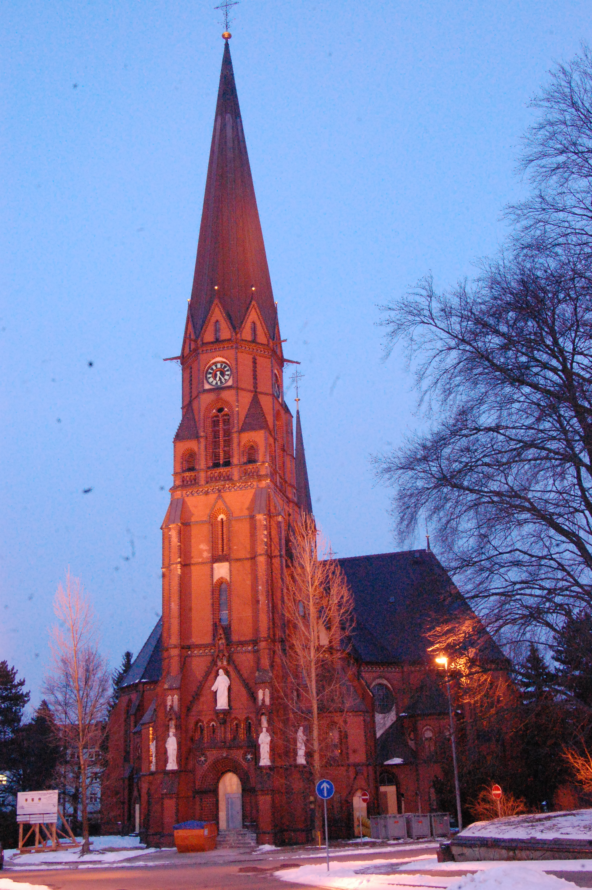 Lutheran Trinity church, Hainichen (Saxony/Germany)